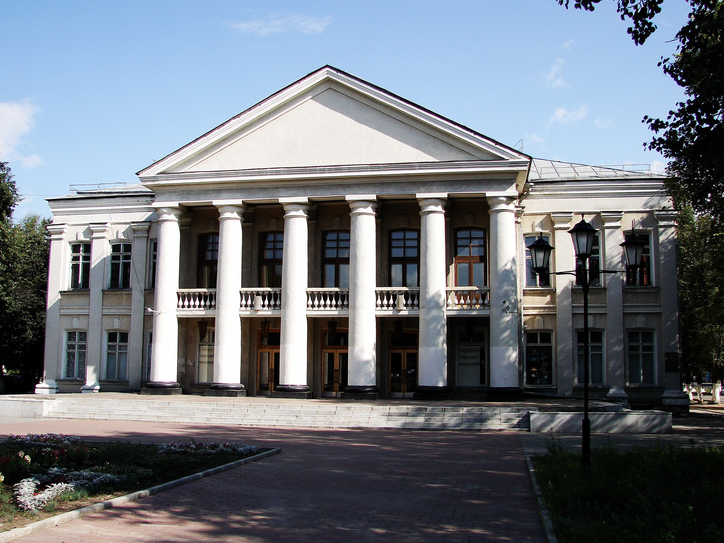 Russia, Vologda, Theater for Children and Youth